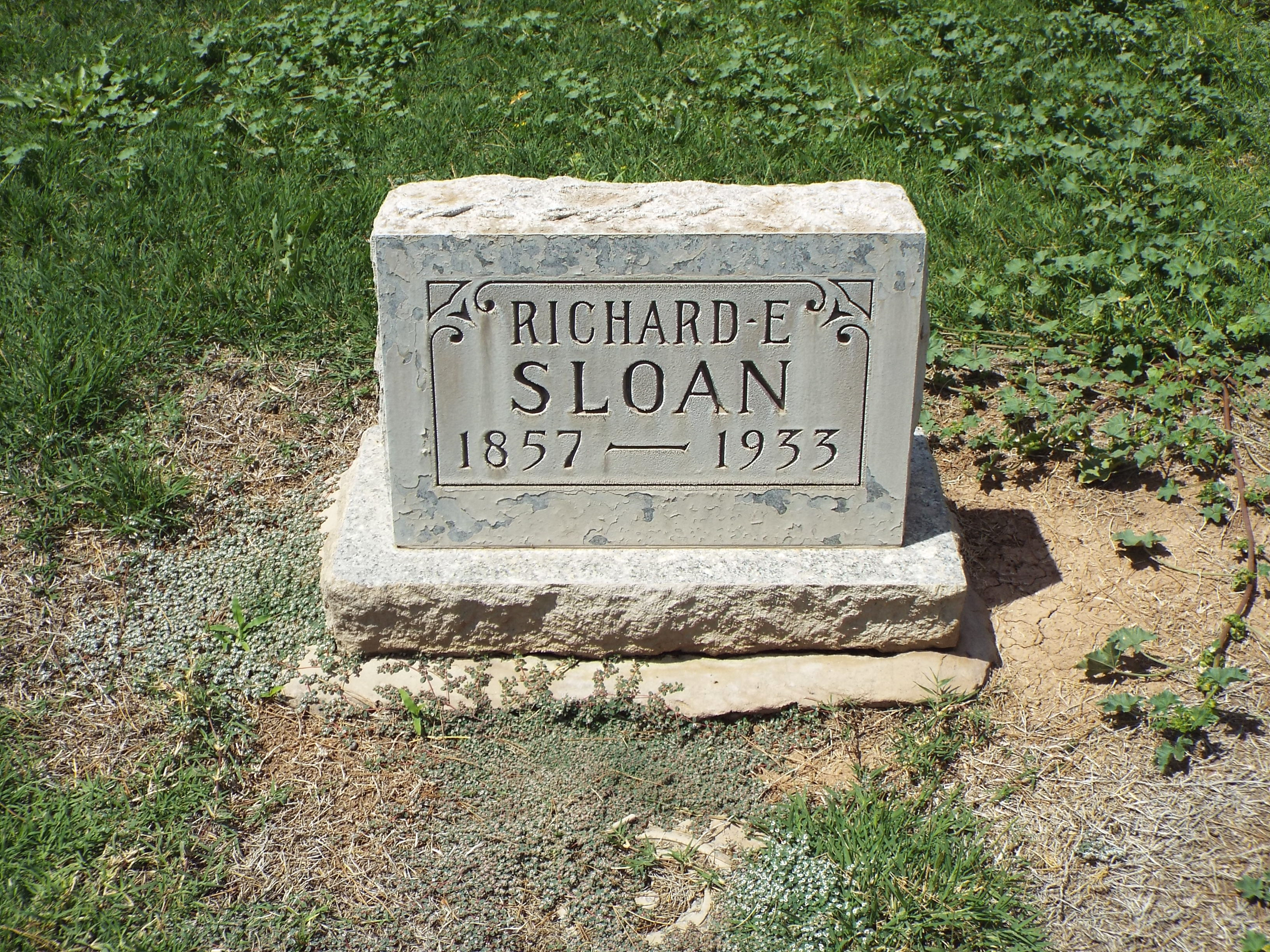 Grave-sight of Richard Elihu Sloan (June 22, 1857-December 13, 1933). Sloan was the 17th and last Governor Arizona Territory. He served from 1909 to 1912.